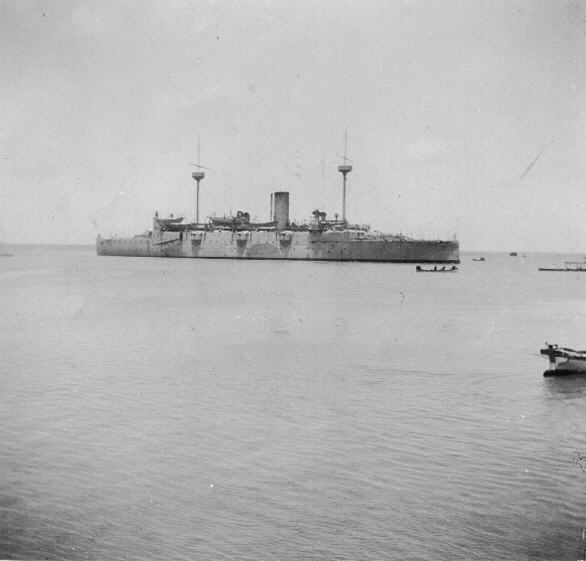 USS Charleston at Manila, Philippines, in 1898. She had convoyed the first U.S. troops to Manila in May-June of that year, capturing Guam while en route.